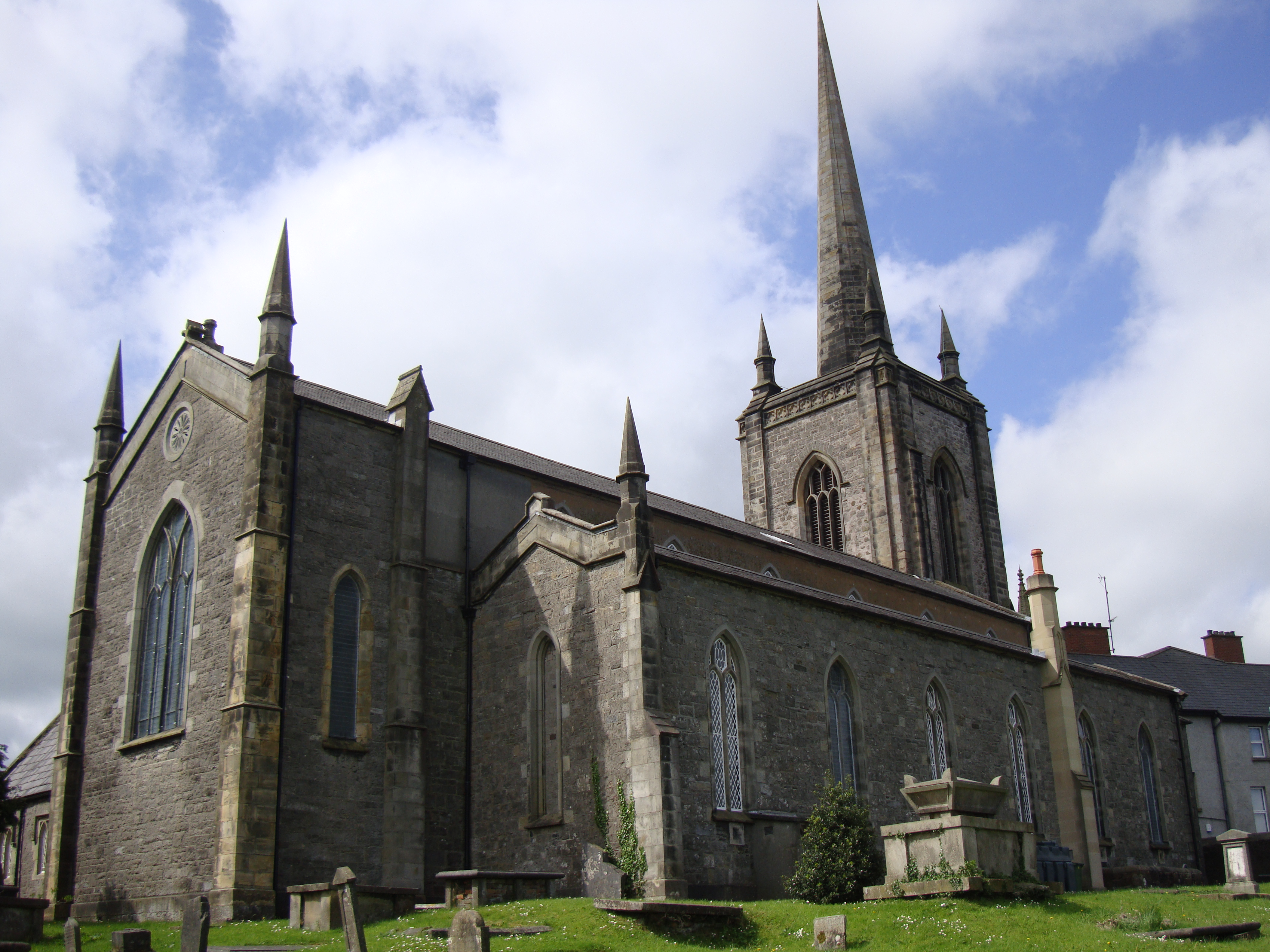 Photograph of St Macartan's Cathedral, Enniskillen, Co. Fermanagh, Northern Ireland